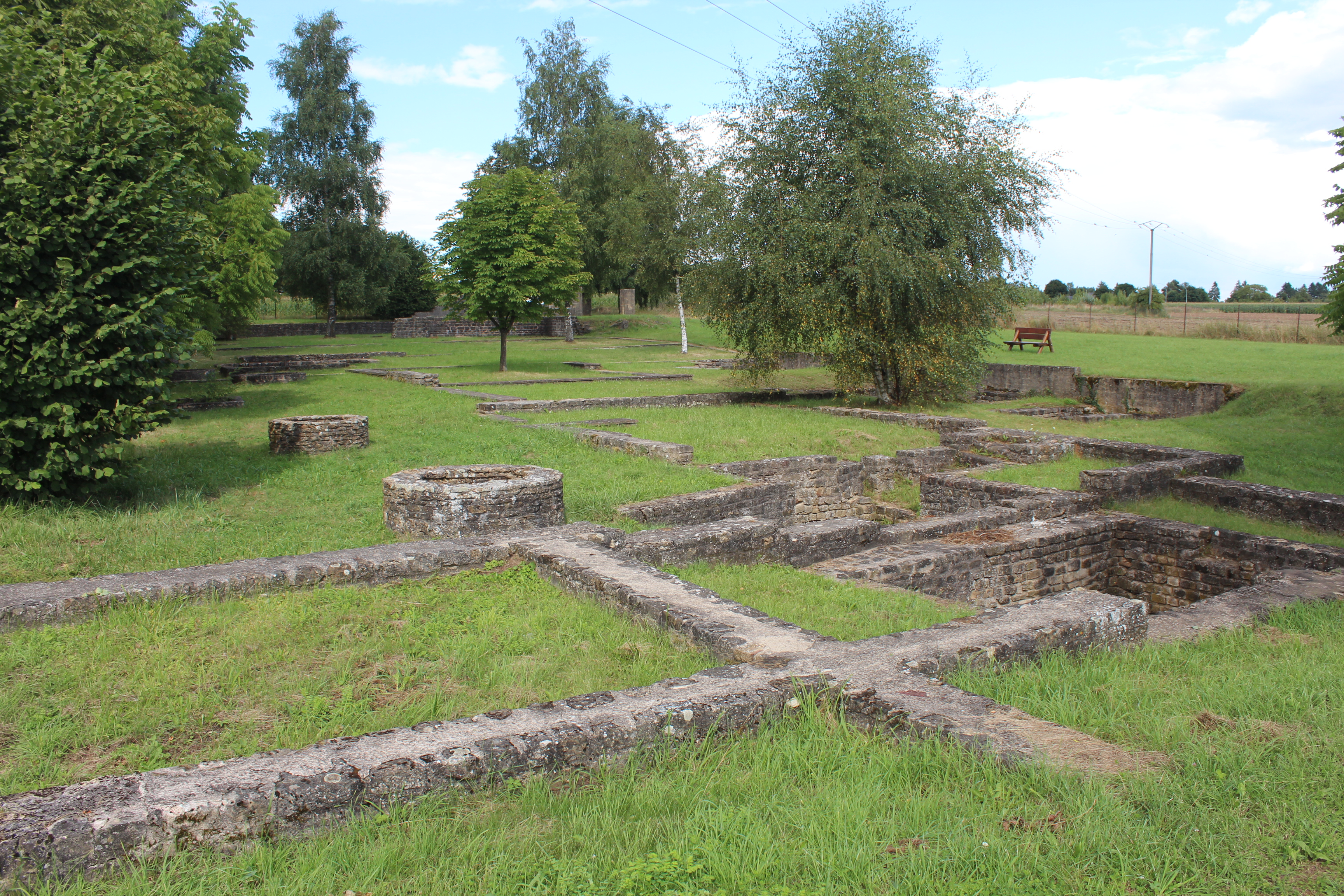 Remains of the Roman village Vicus Ricciacum on Pëtzel hill, Dalheim, Luxembourg.